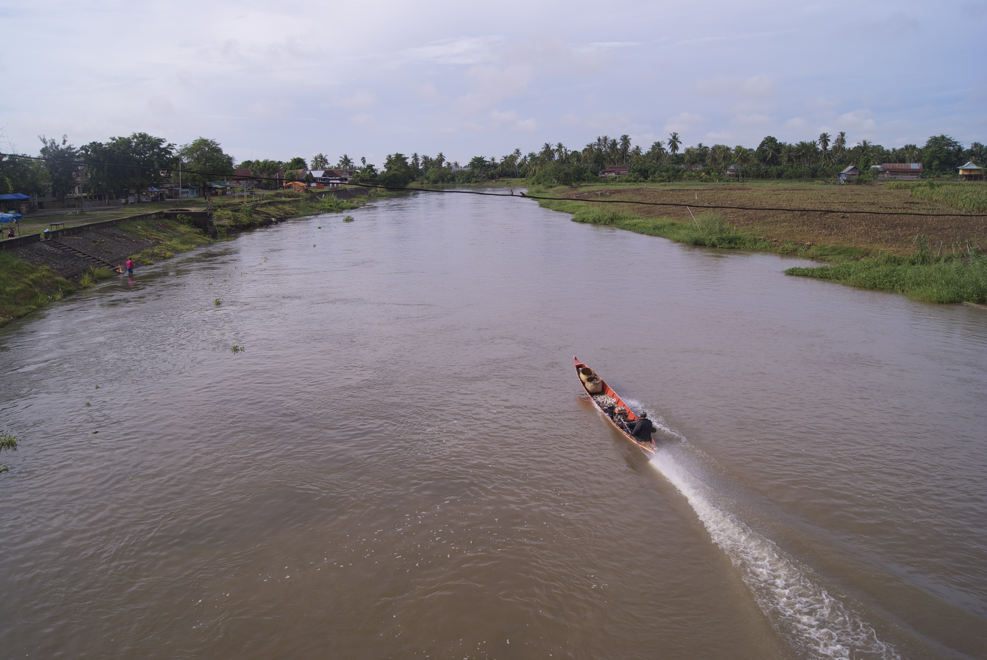 Salo Lompo River, Sengkang, near Tempe Lake, South Sulawesi, Indonesia